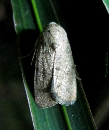 Athetis ignava moth Noctuidae (Guenée, 1852) Picture taken in Réunion